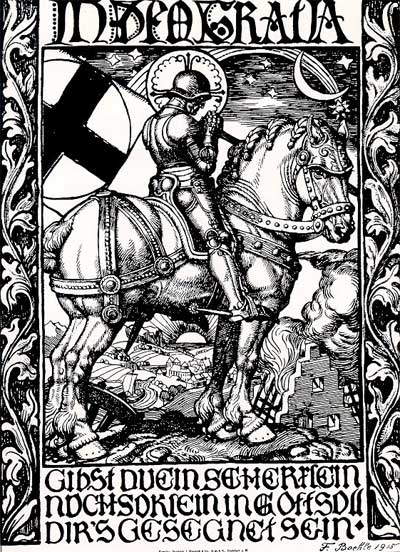 German poster of 1915: And if your mite is even small God will bless you for it